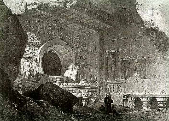 Sketch of the entrance to cave 19 (the big chaitya) at Ajanta, by James Fergusson (1808-1886). Downloaded from [1]